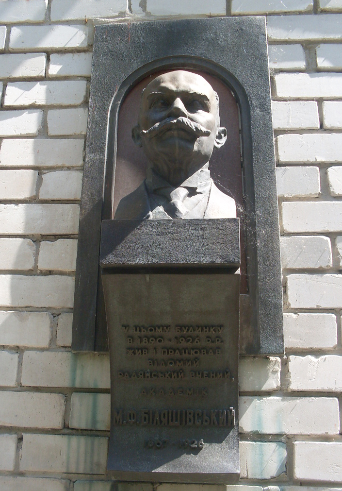 Akad. M.F. Biljashivsky, Kaniv Nature Reserve